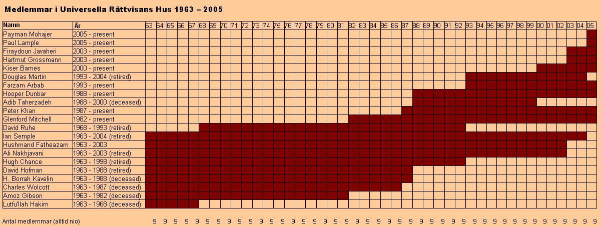 Cronology over members in the Universal House of Justice (URH, UHJ) 1963 – 2006